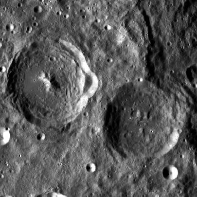 Hartmann is the the crater at the right lower part of the image. The slightly larger crater with central peak to its upper left is Green.